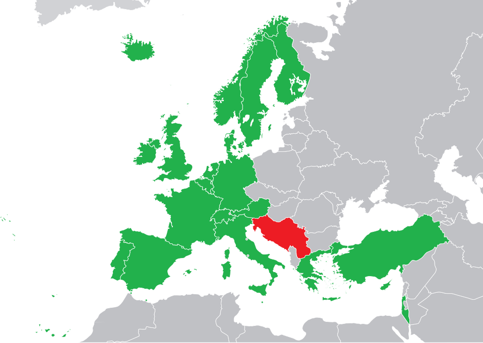 Illustration showing regular participating countries in the Eurovision Song Contest in 1992. "Yugoslavia" is coloured in red: 1992 was the last year in which that nation participated under one name. Note that although in 1992, the entry was submitted by FR Yugoslavia (which later became Serbia & Montenegro), the song was still performed in the name of "Yugoslavia", and 1992 is considered as the last year in which that union of nations participated before the break-up.